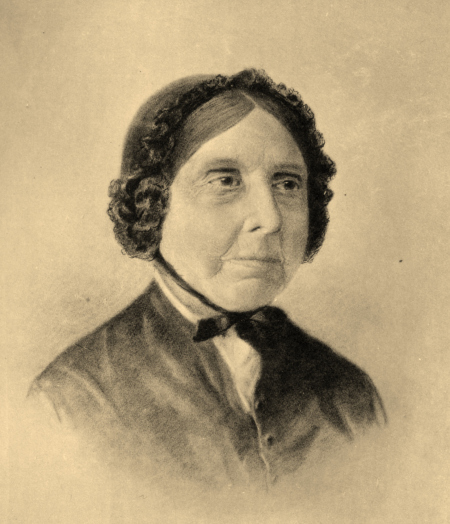 A portrait of Hannah Shuttleworth, drawn from a death mask. The original hangs in the Dedham Historical Society.